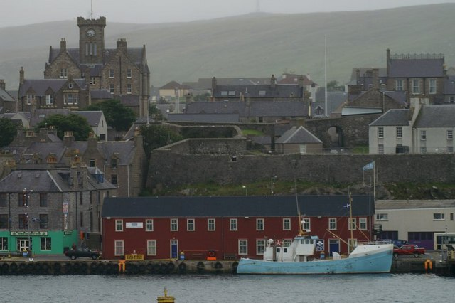 Albert Buildings, Lerwick The red building is a converted fish-processing shed which now houses offices. Part of Fort Charlotte can be seen and the Lerwick Town Hall is top left.